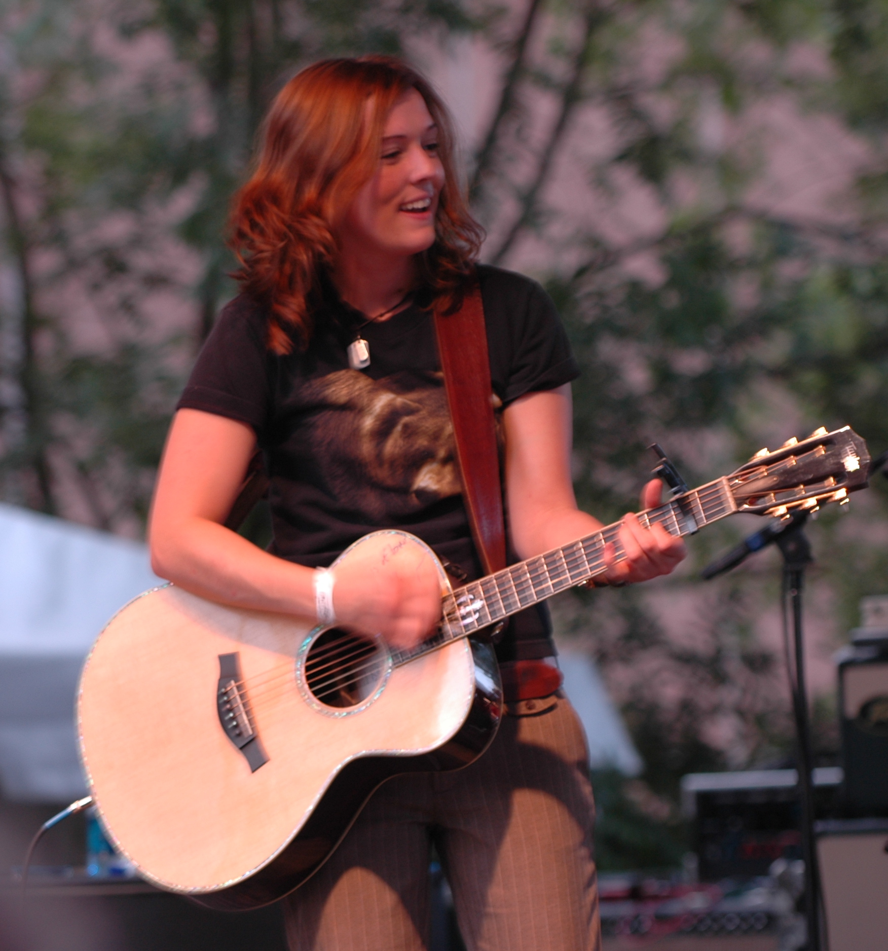 Brandi Carlile performing at City Stages in Birmingham, Alabama. (June 2006)